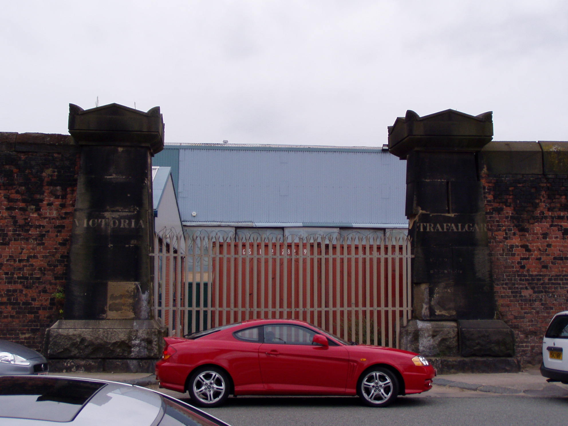 Enterance for Victoria and Trafalgar dock